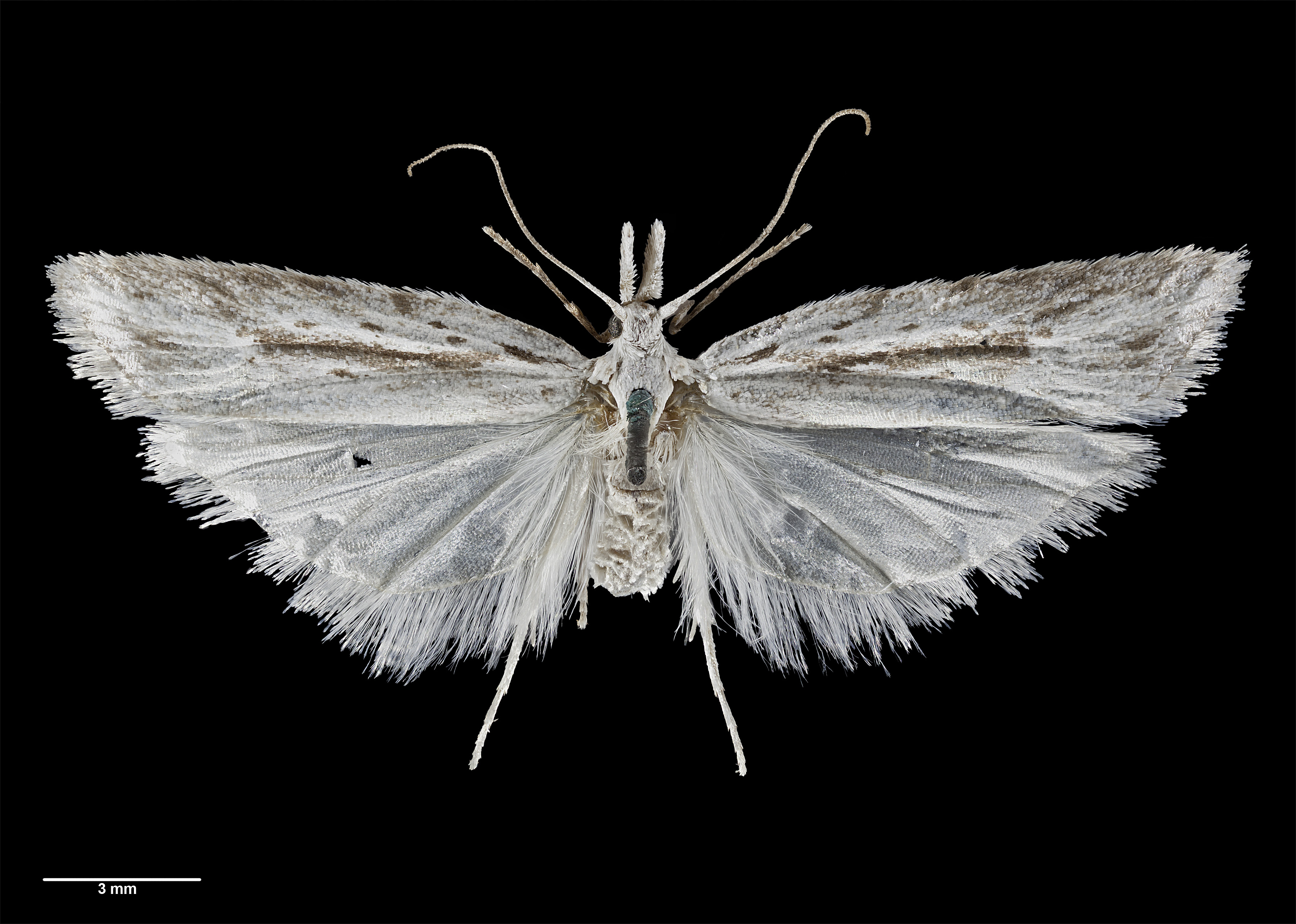 Female holotype specimen of Heterocrossa sanctimonea AMNZ21752 held at the Auckland War Memorial Museum.